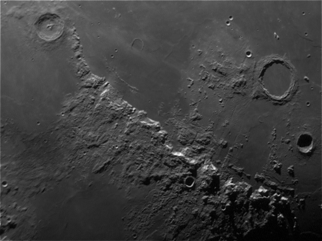 Eratosthenes, Archimedes, Autolycus and Montes Apenninus on the Moon on 2012-10-07 with bad seeing. Telescope: Celestron C8 @ f/10 (2030 mm) Camera: TIS DMK21AF04 Filter: Red Filter Stacking of the best 400 frames out of 7000 using Registax 5. North is on the left. From Palermo, Sicily.